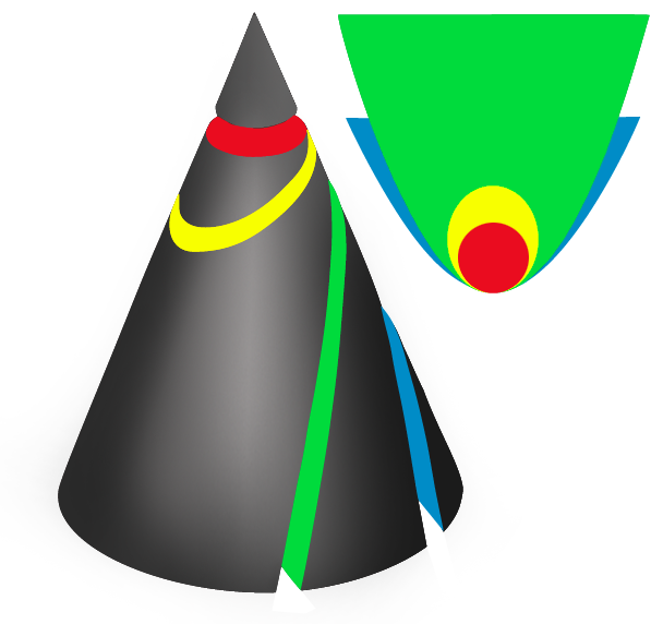 Conic sections